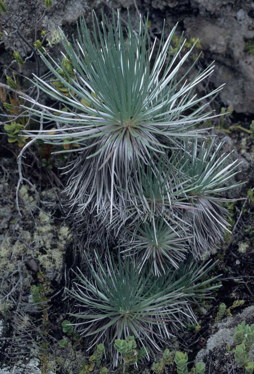 Mauna Loa silversword (Argyroxiphium kauense), Kahuku, Hawaii Volcanoes National Park. Photo by Karl Magnacca.